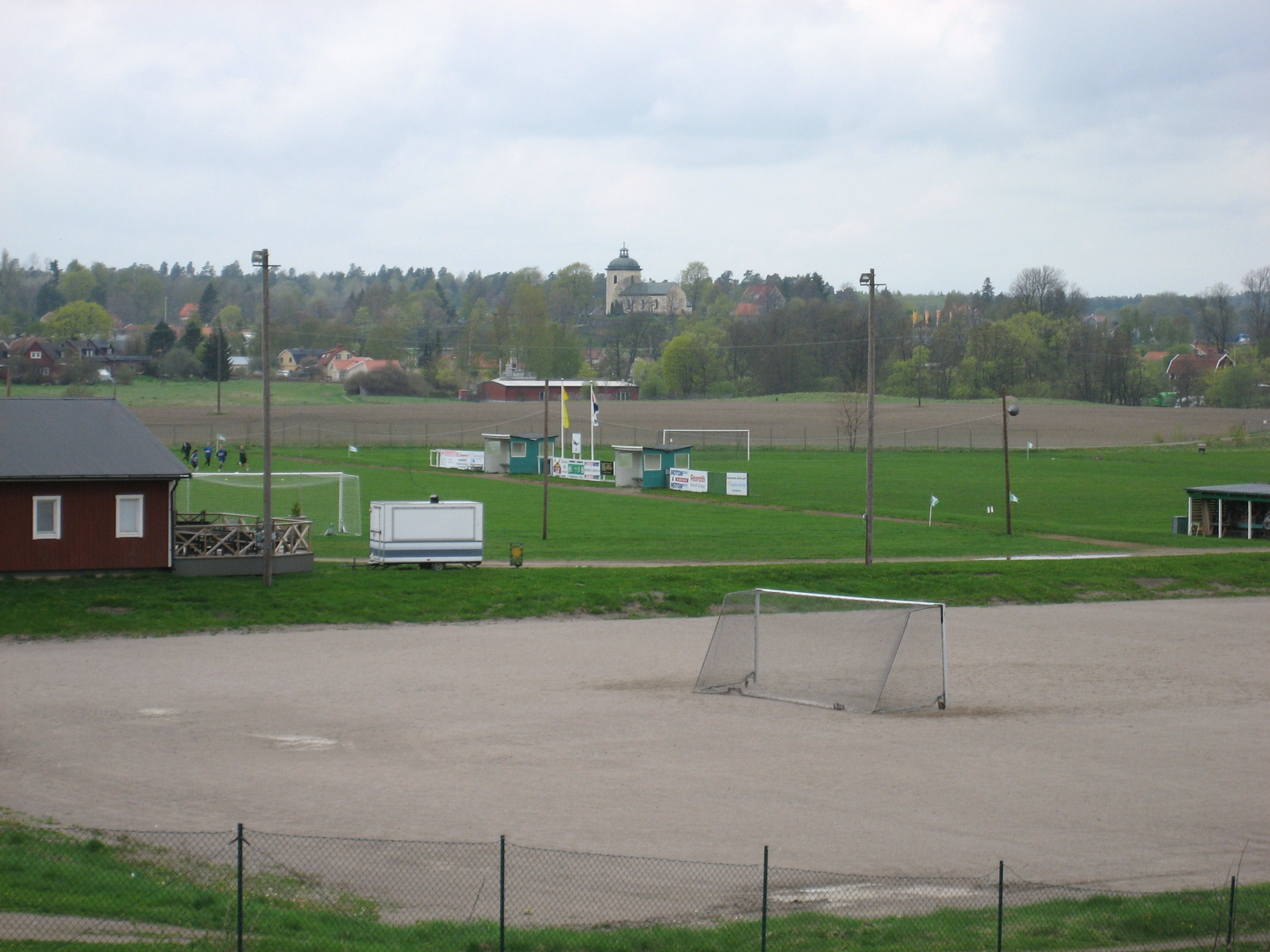 Häradsvallen, Vagnhärad, Södermanland, Sweden. Picture taken from Trosa landskyrka.